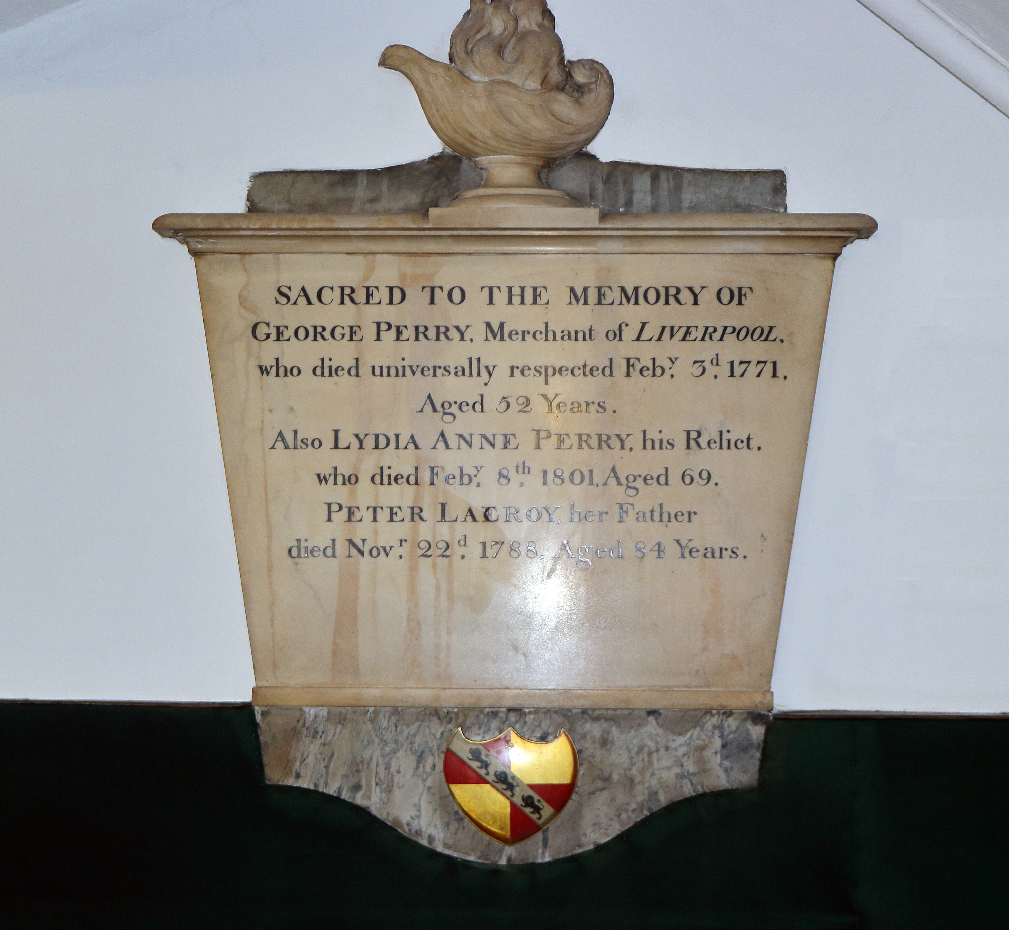 Memorial tablet to George Perry (1719 - 3rd February 1771). Perry was born in Somerset and having worked in the Coalbrookdale iron foundry, moved to Liverpool to set up his own works. He married Lydia Ann Lacroy (also commemorated), who gave her name to Lydia Ann Street in the Ropewalks area of Liverpool.